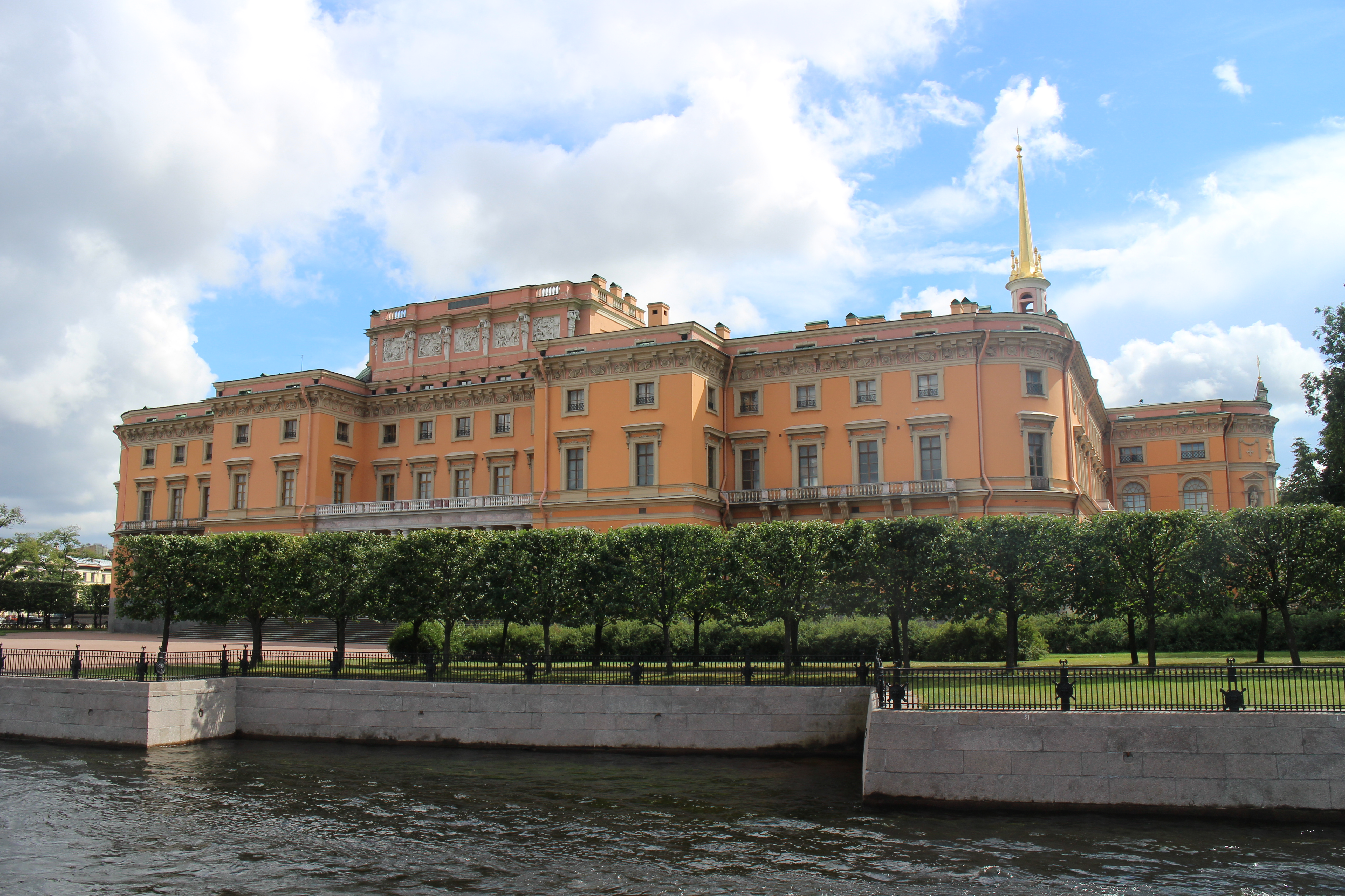 St. Michael's Castle